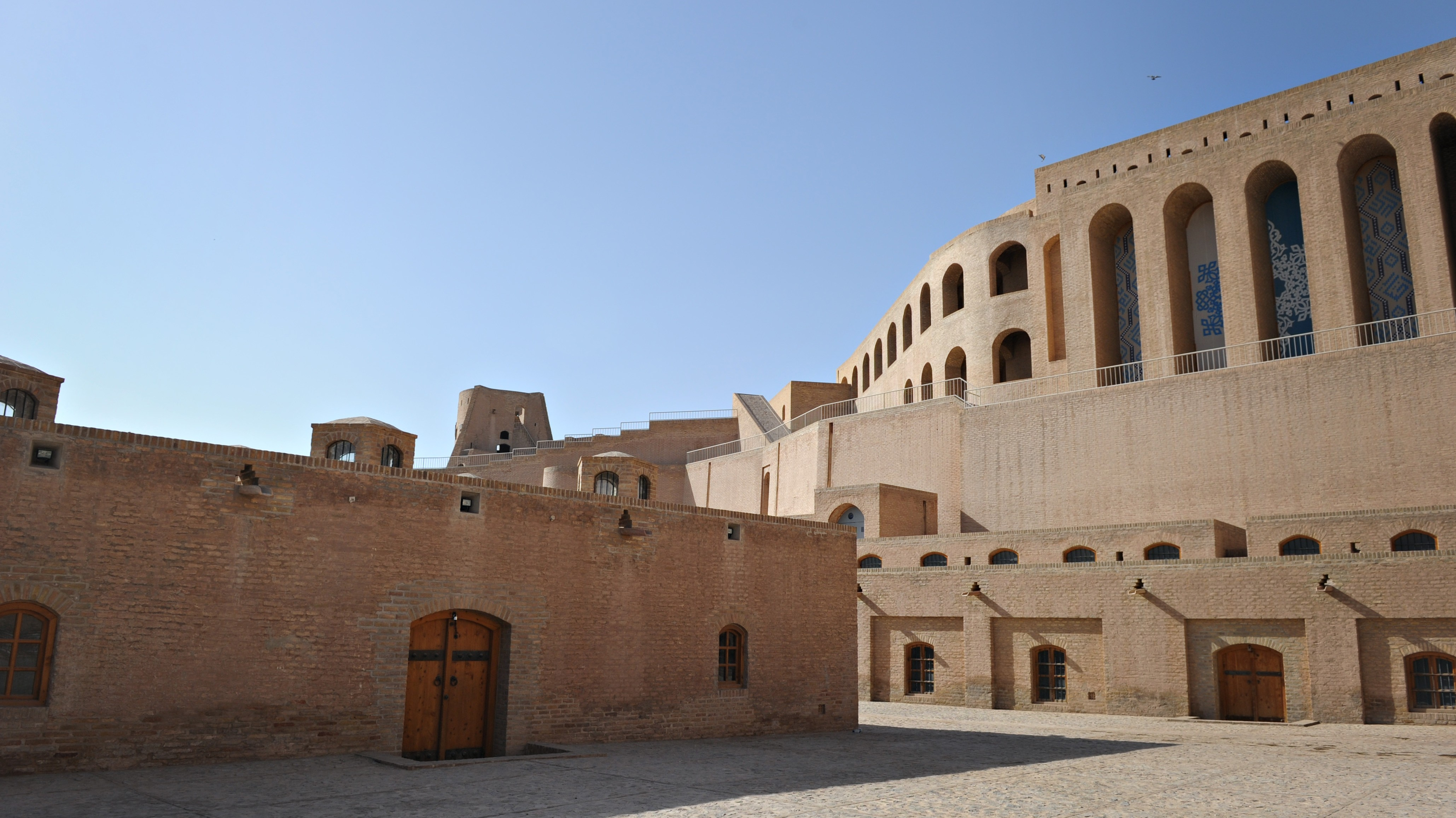 The Qala Ikhtyaruddin (Citadel) in Herat, Afghanistan.